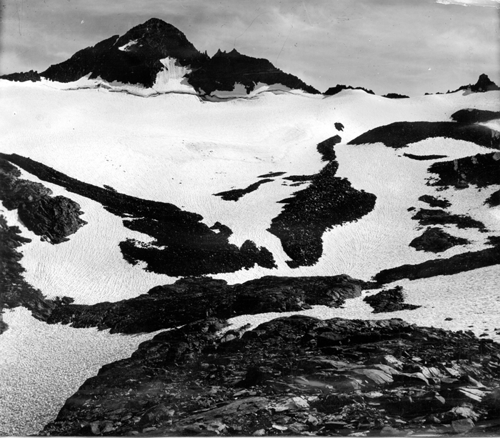 Yosemite National Park, California. Mount Maclure and Maclure Glacier. The V- shaped moraine loop is presumably of post-Pleistocene date. This image is in the public domain in the United States because it only contains materials that originally came from the United States Geological Survey, an agency of the United States Department of the Interior. For more information, see the official USGS copyright policy.